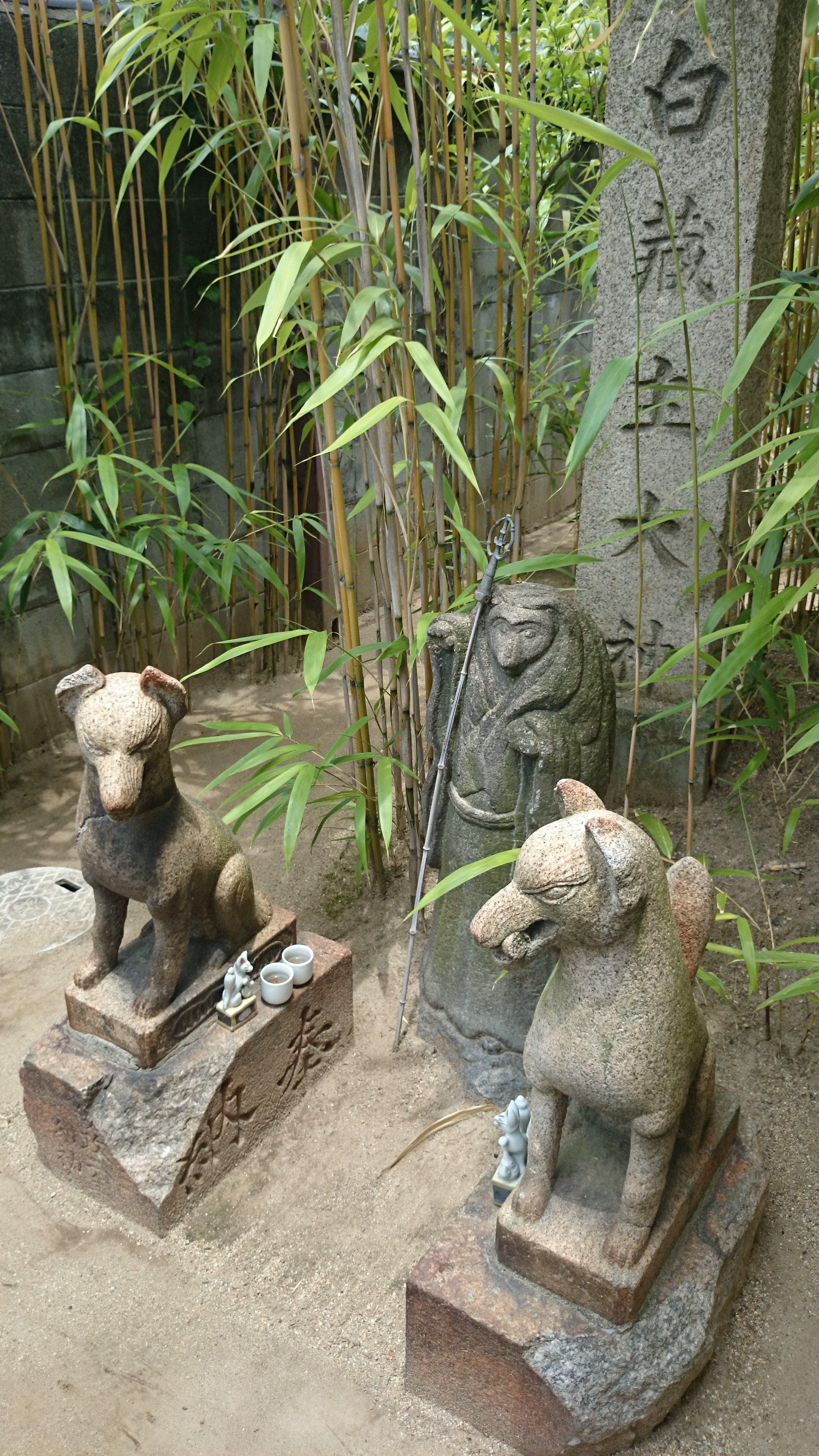 Statue of Hakuzōsu in the precincts of Shōrin-ji Temple, Sakai, Osaka, Japan.